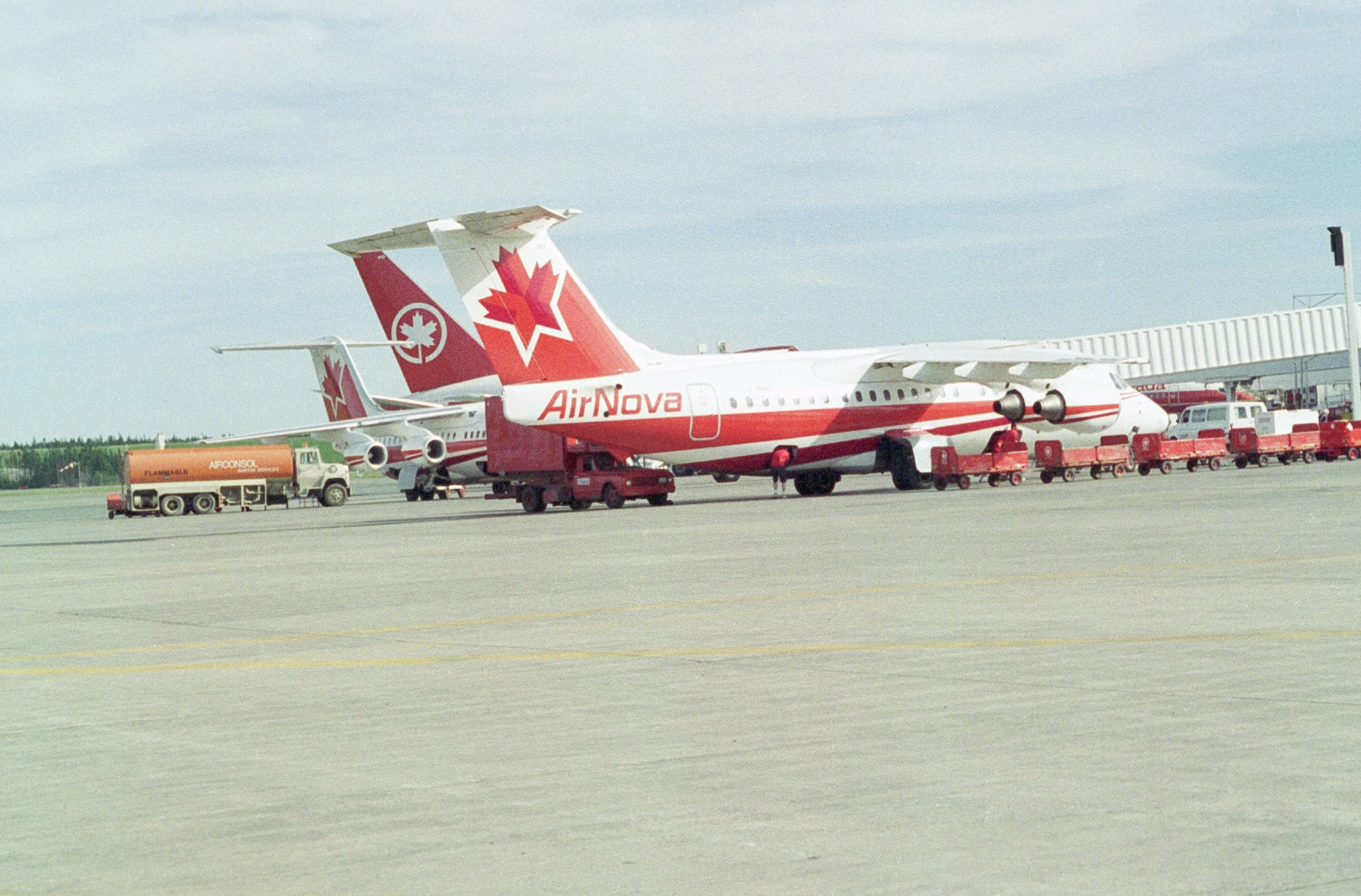 British Aerospace BAe-146-200A C-GRNU (cn E2139) Air Nova (last noted with Air Canada Jazz in 2004). Halifax - Robert L Stanfield International (YHZ / CYHZ) Canada - Nova Scotia, August 1990.